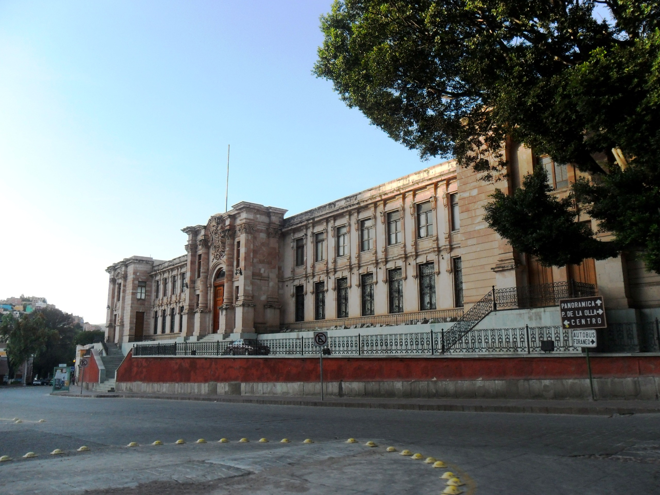 Normal School, of Guanajuato (city) — Mexico.